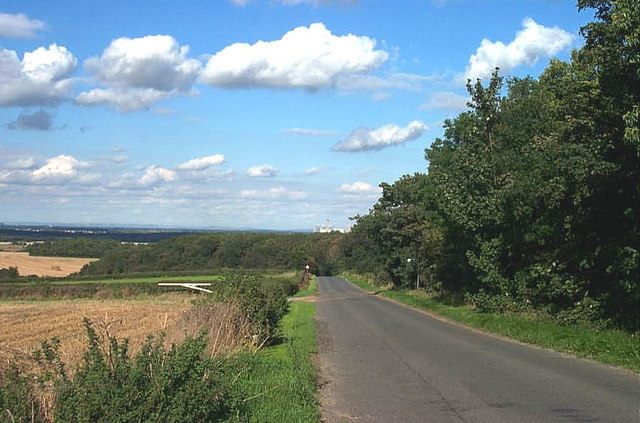 White Ley Road, Looking north east from the footpath entrance to Barnsdale Wood.. The power station on the horizon is Drax.